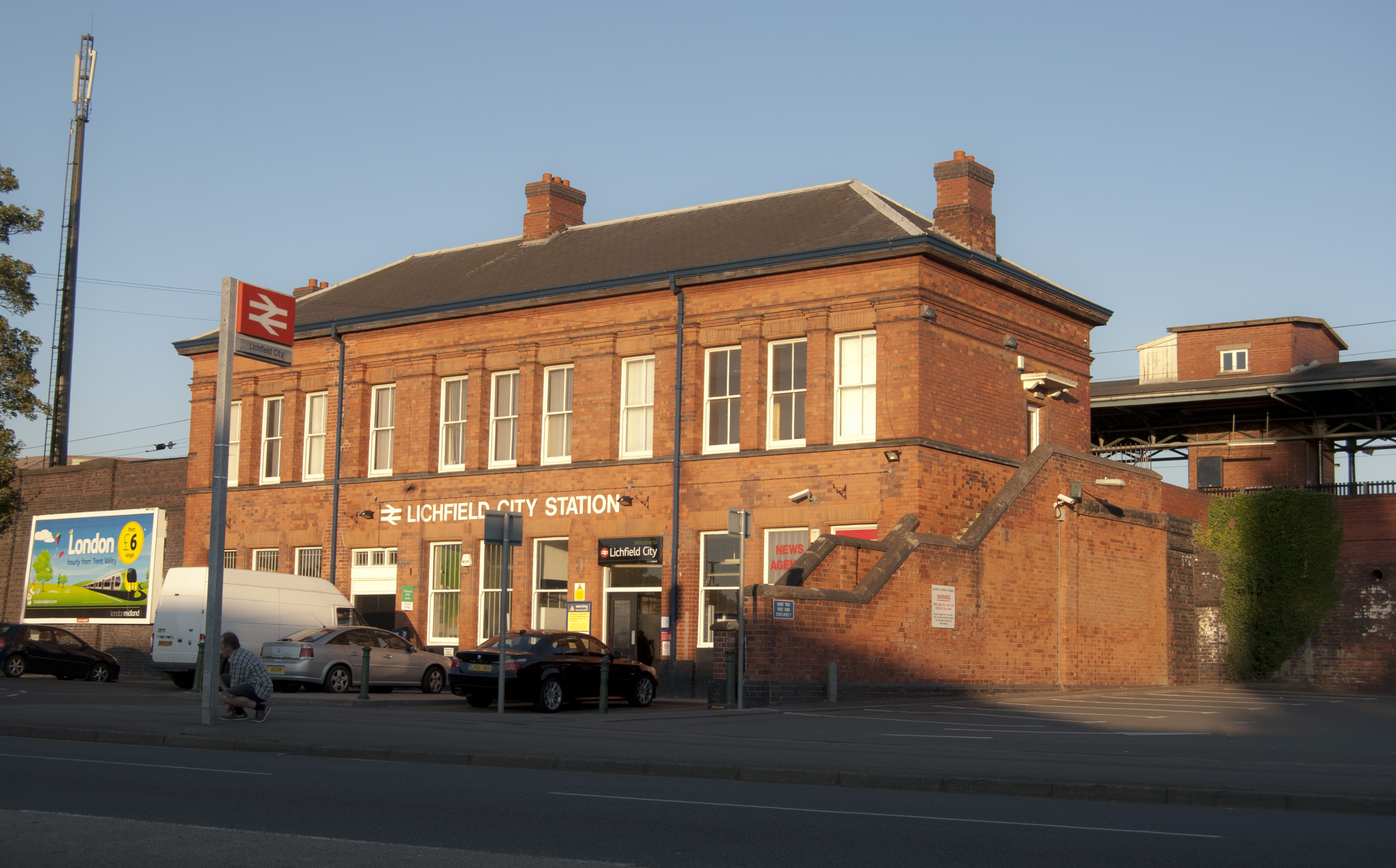 Lichfield City Train Station